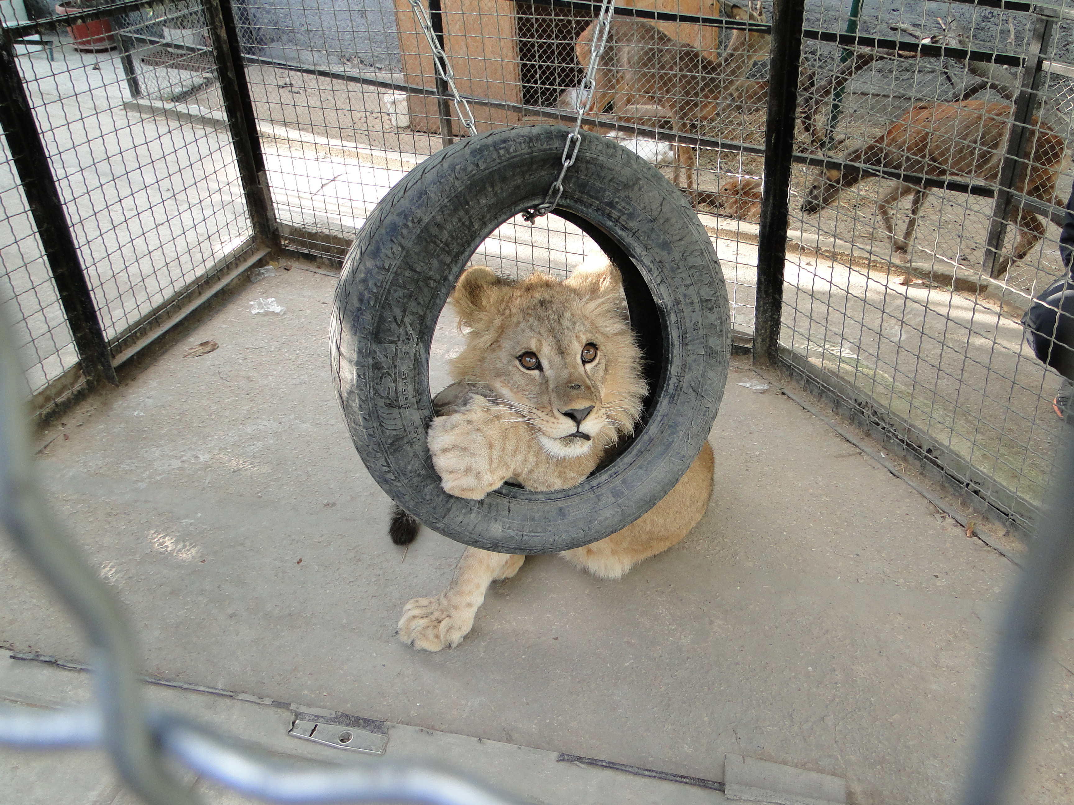 Lion cub. Sevastopol Zoo.